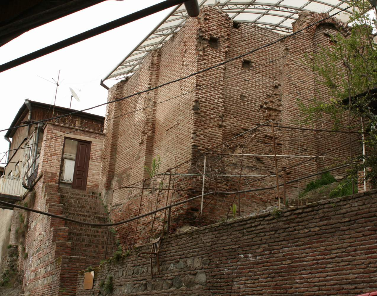 Ateshga general view, Tbilisi